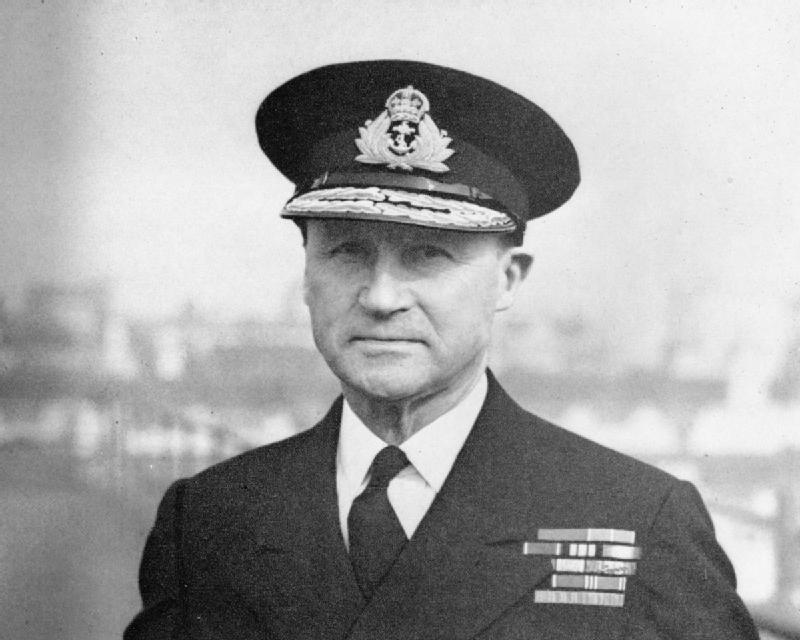 The Royal Navy during the Second World War A head and shoulders portrait shot of Admiral Sir Bertram Ramsay who was in charge of the naval evacuation at Dunkirk. Photograph taken at his London Headquarters in October 1943.